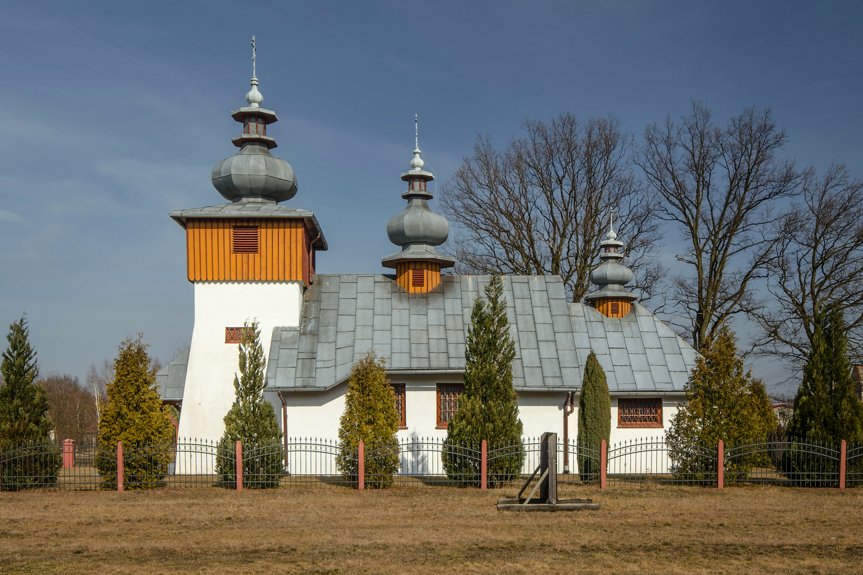 Archangel Michael orthodox church in Michałów, gmina Chocianów, Lower Silesia Voivodeship, Poland